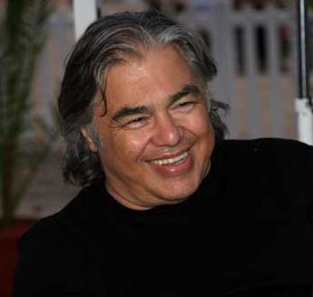 Aaron Russo, 2006 at Cannes Film Festival. Taken from english Wikipedia